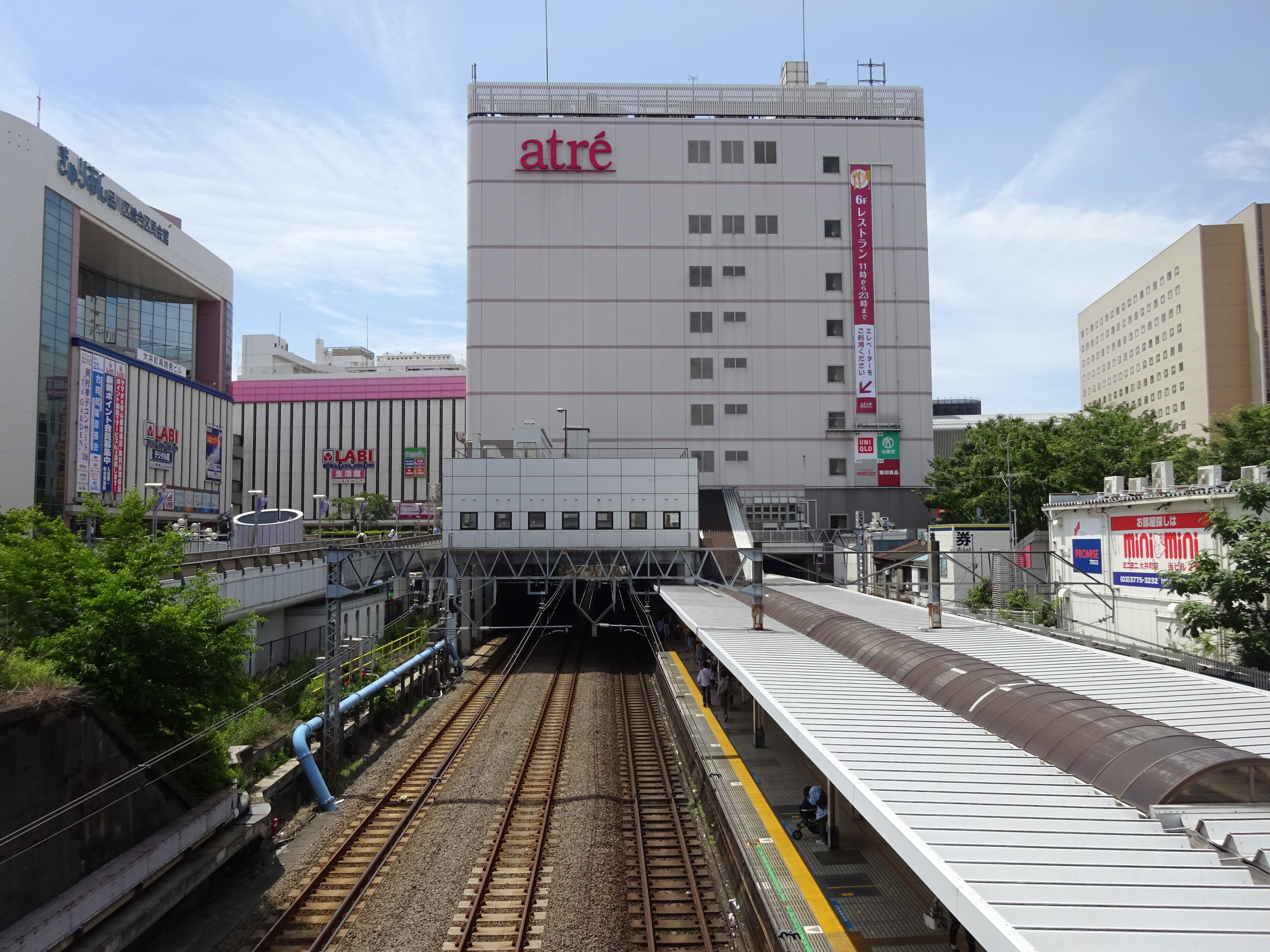 Ōimachi Station